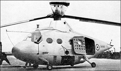 Original image taken by a British government employee prior to 1956.